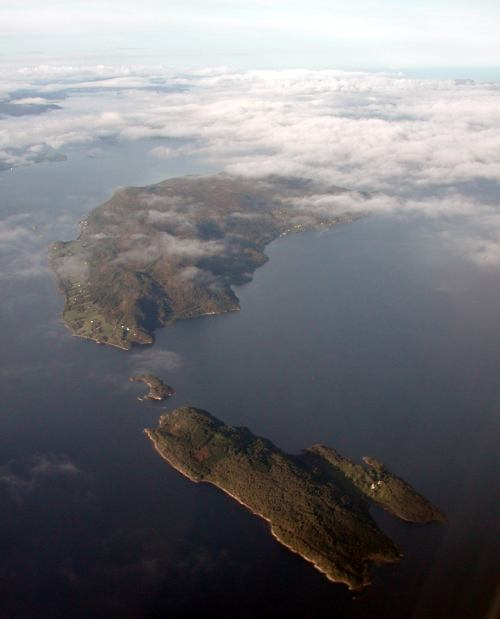 Air photo of Norwegian islands (from near to far) Veøya, Hangholmen and Sekken, near Molde. It's not a professional air photo, it is simply taken from the window of a passenger airline.